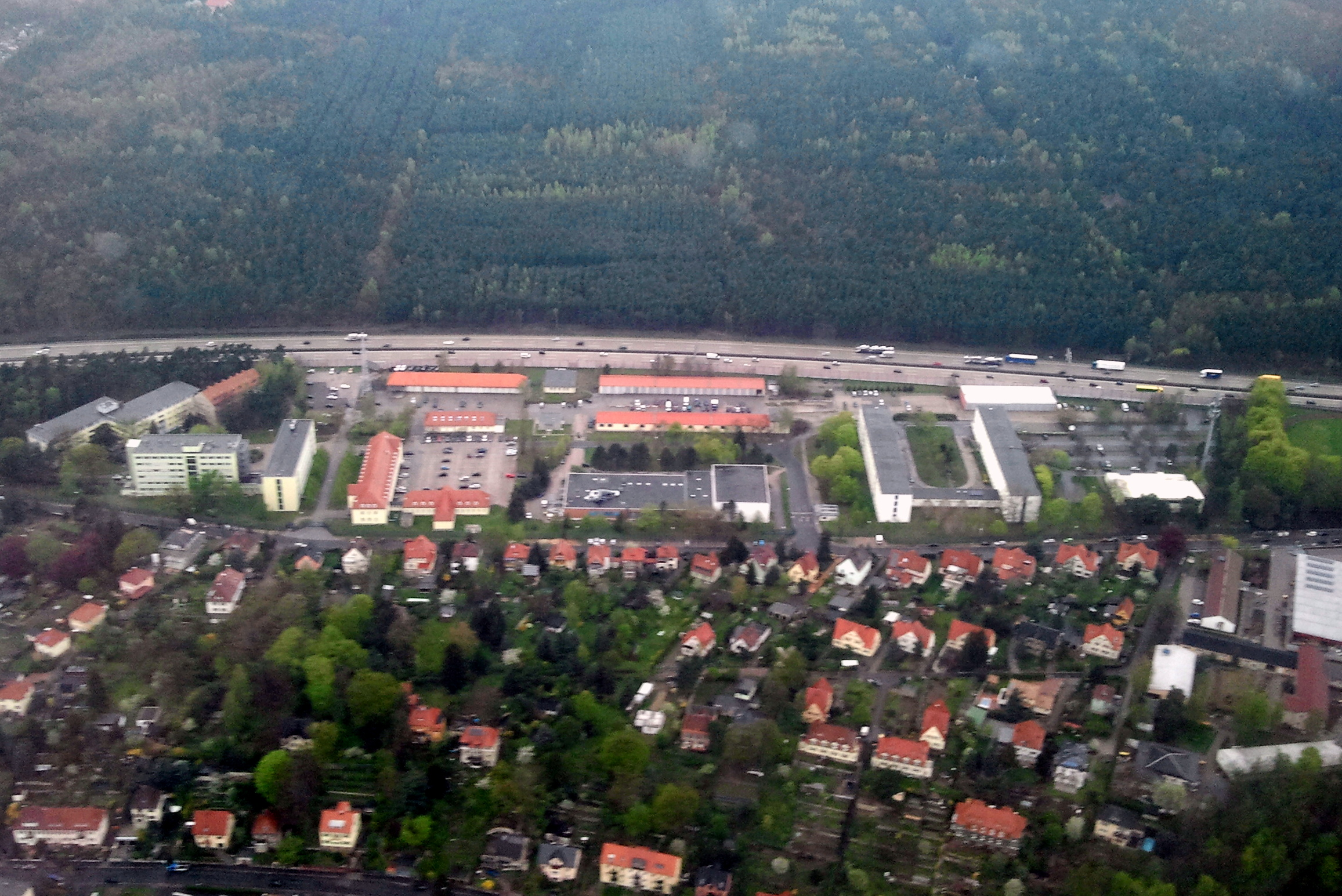 Saxony State Office of Criminal Investigations in Dresden